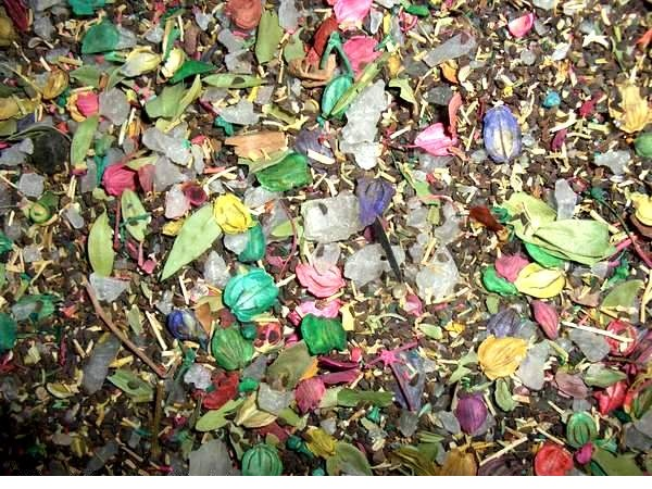 Zoroastrian Kondoe.